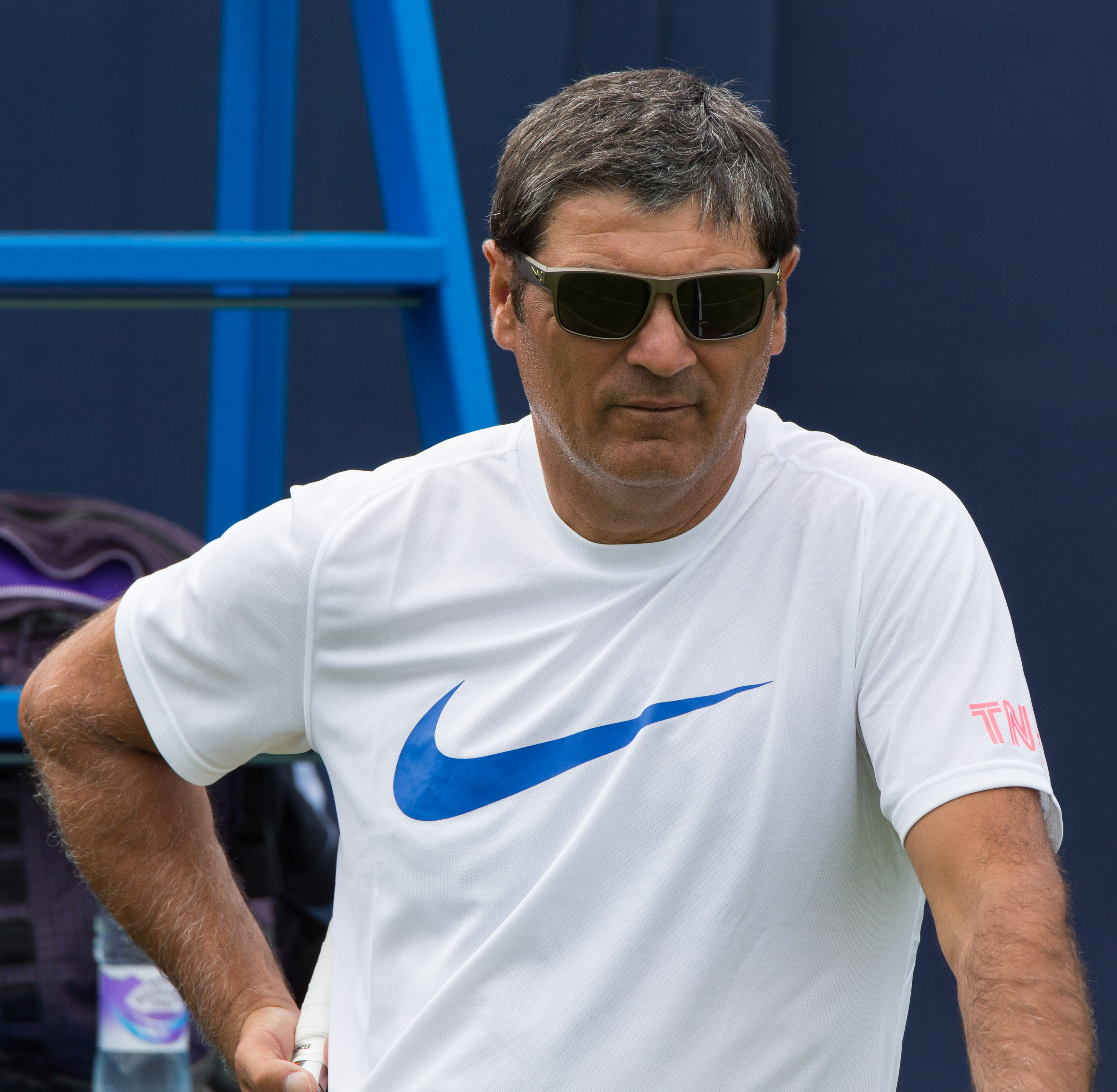 Toni Nadal coaching Rafael Nadal during practice at the Queens Club Aegon Championships in London, England.